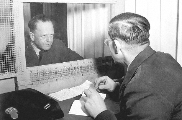 Fieldmarshal Erhard Milch, facing camera, confers with his brother, Dr. Werner Milch in the special consulting room provided for defendants now on trial at Nuernberg. Dr. Milch is acting as associate defense counsel to Dr. Friedrich Bergold. [Original Descriptive Caption]